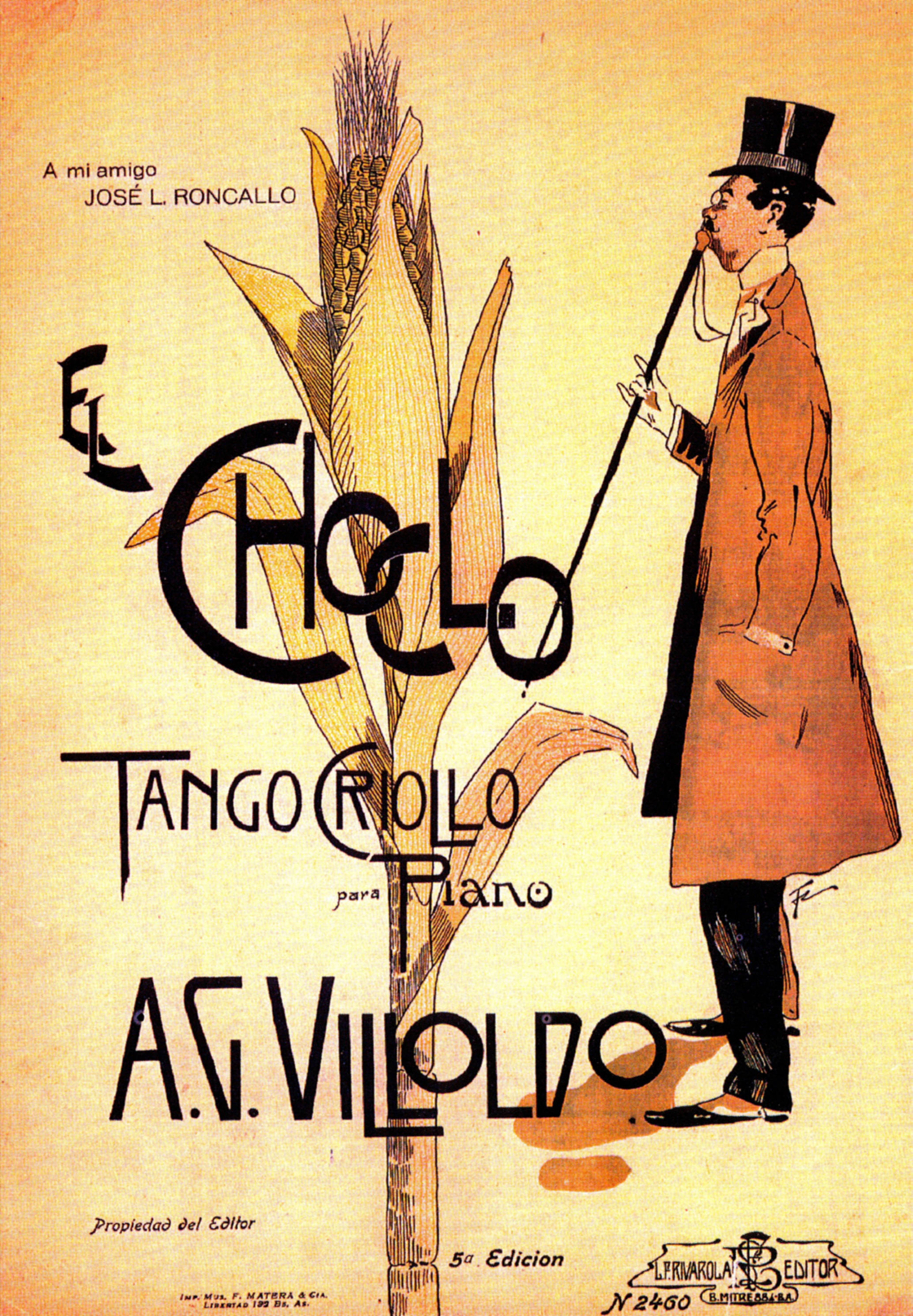 The score´s title of El Choclo, one of the most popular tangos